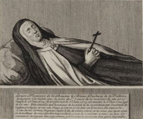 Death of Soeur Louise de la Miséricorde, former Louise de la Vallière mistress of Louis XIV